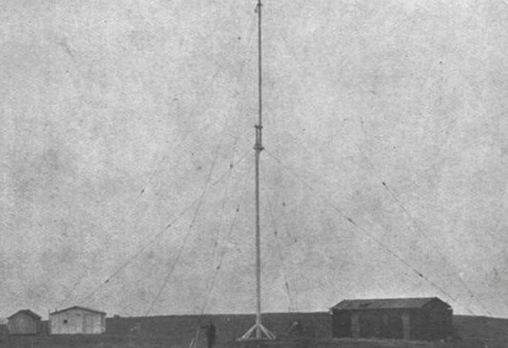 500 kHz Marine radio FFU French Fixe Ushant